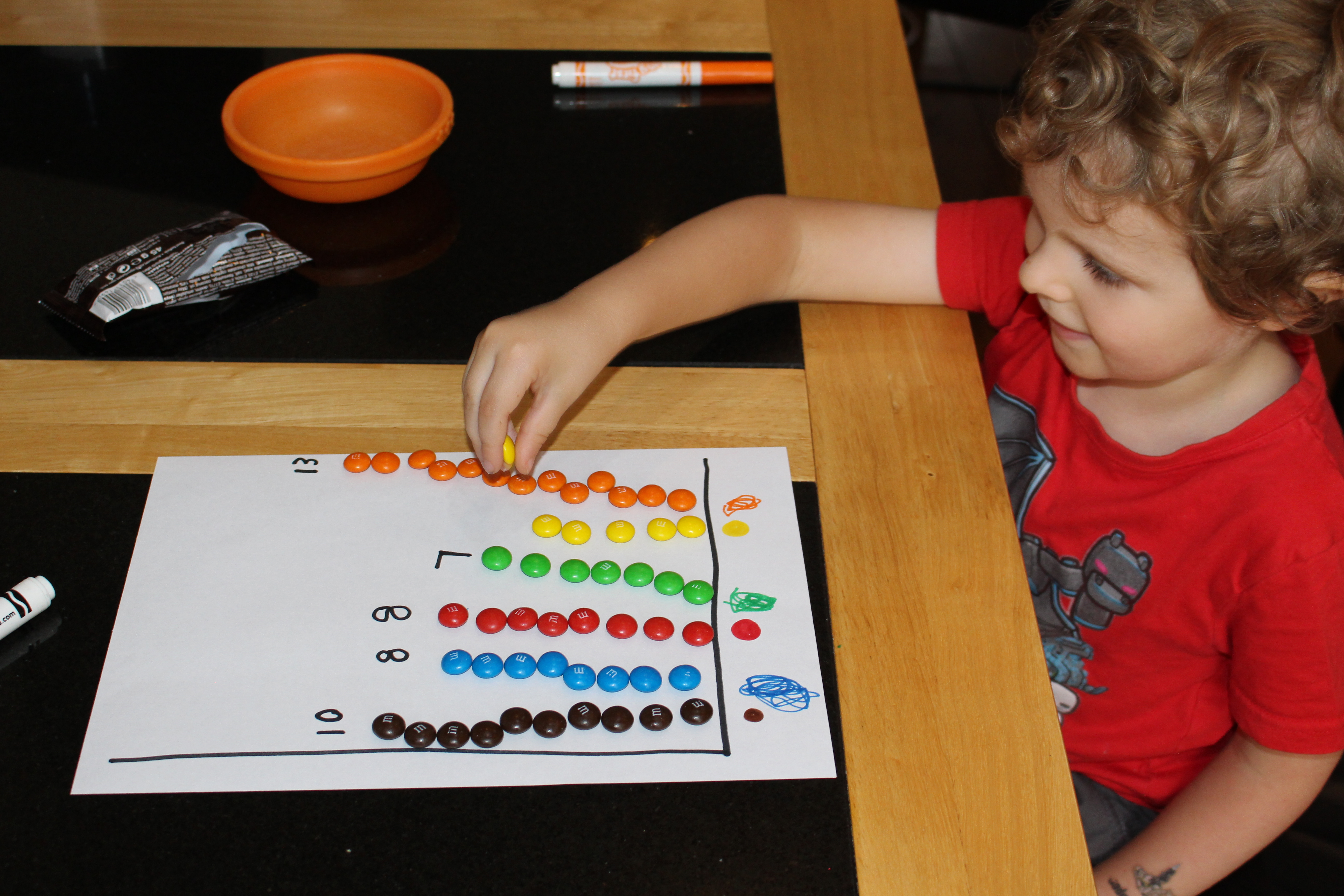 Child counting M&Ms